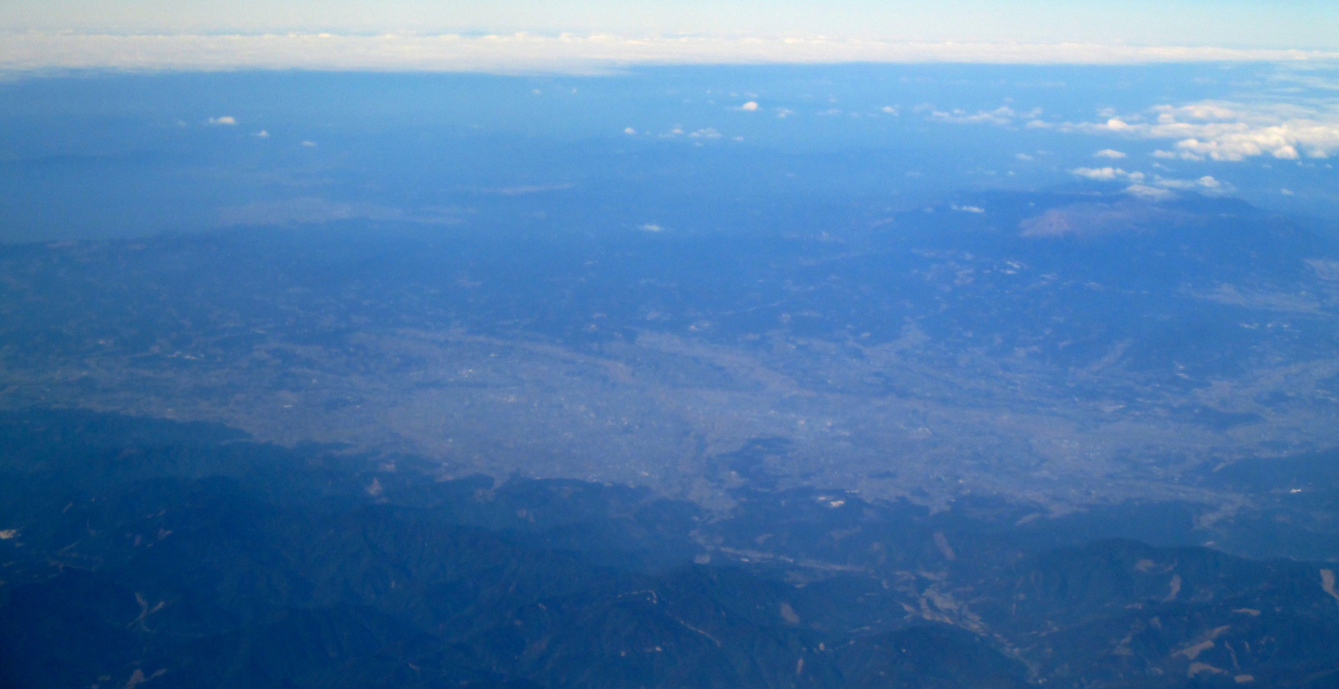 Miyakonojou Basin in Miyazaki, Japan